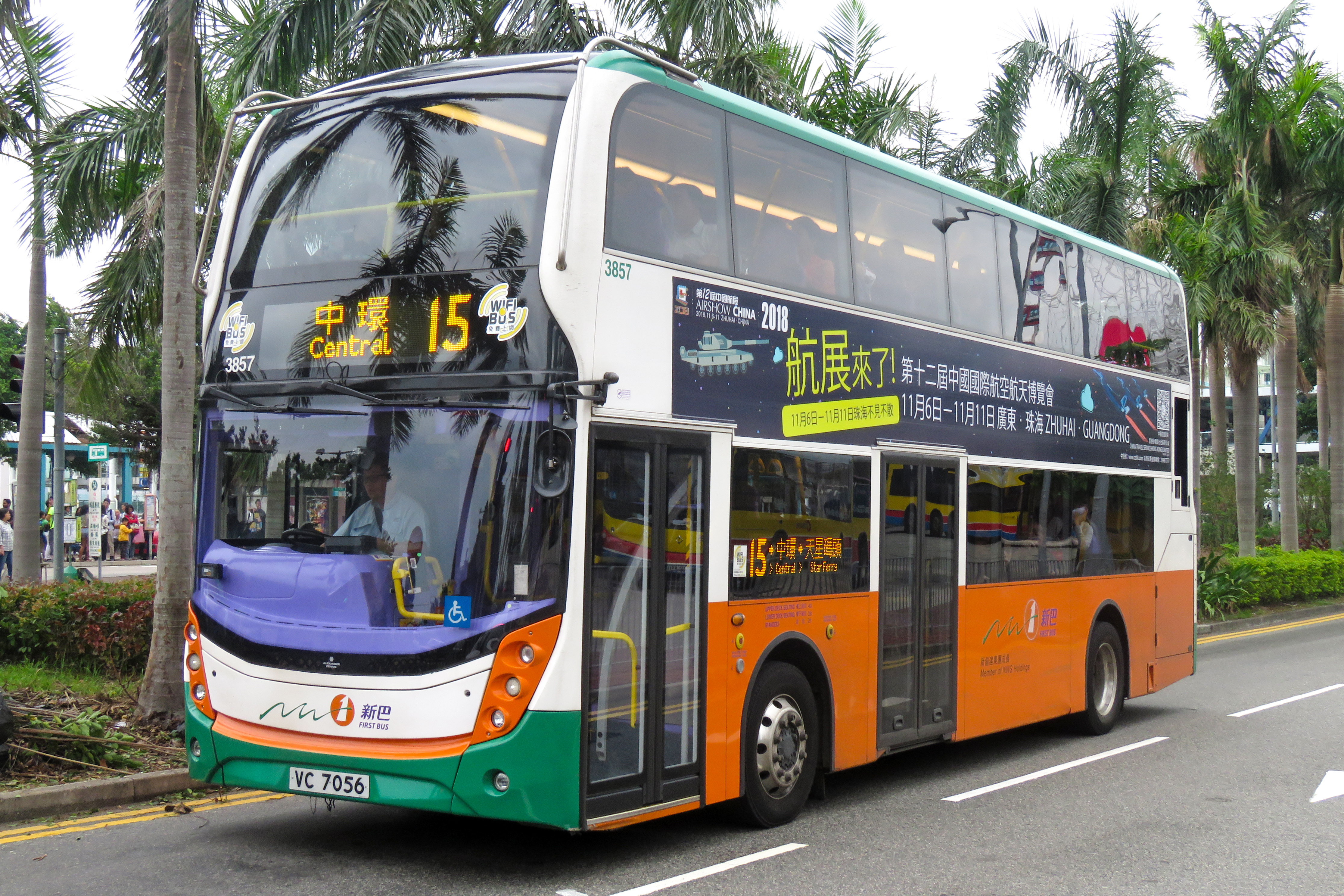 With port side banner promoting Zhuhai Airshow 2018. It just happened that the Hong Kong-Zhuhai-Macau Bridge will start operations on 24 October 2018, so there must be a lot of spotters from Hong Kong preparing for this!